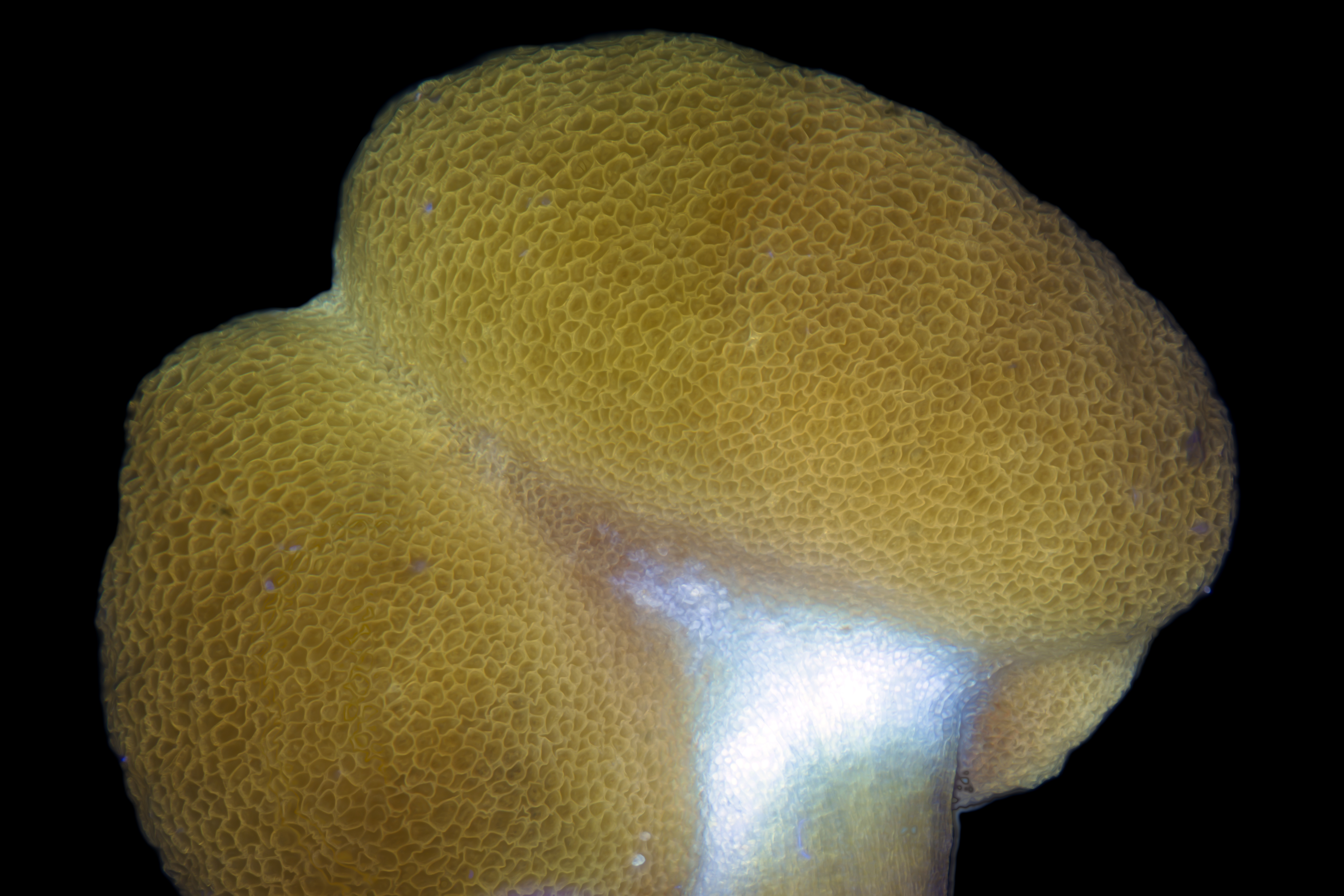 The outer side of the anther (the pollen containing part of the stamen) of viola. Avftofluorescence.